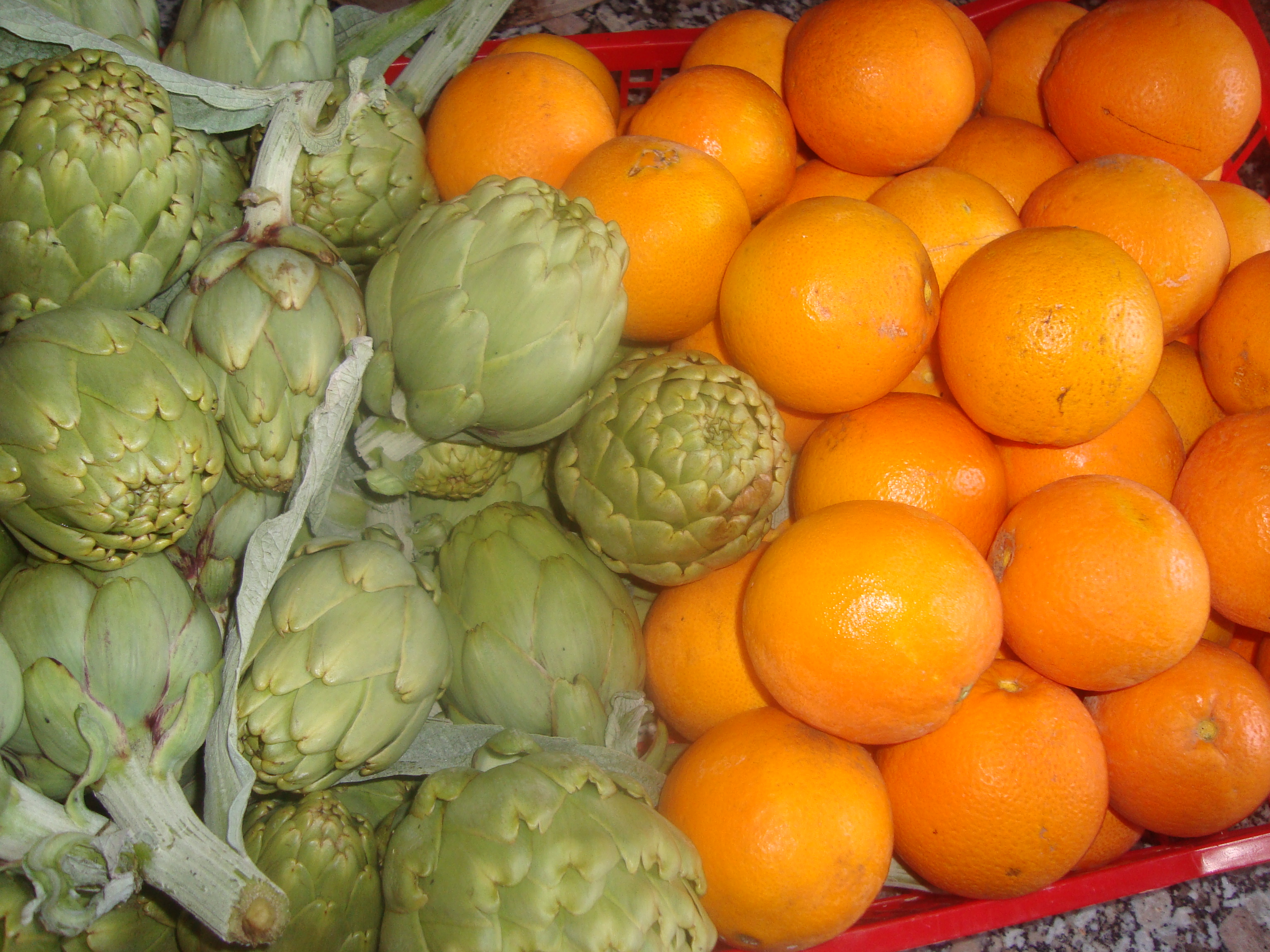 Artichokes and oranges from Torreblanca (Castellón)